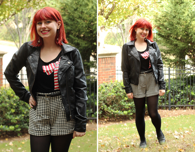 Houndsooth Shorts with Black Tights, a Graphic Tee, and Leather Jacket Model